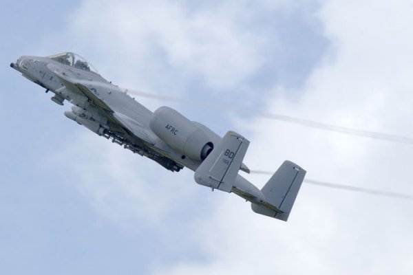 A10 of the 917th Wing, Barksdale AFB, LA